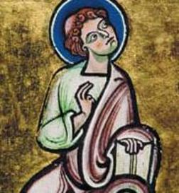 Yves de Chartres, Icon